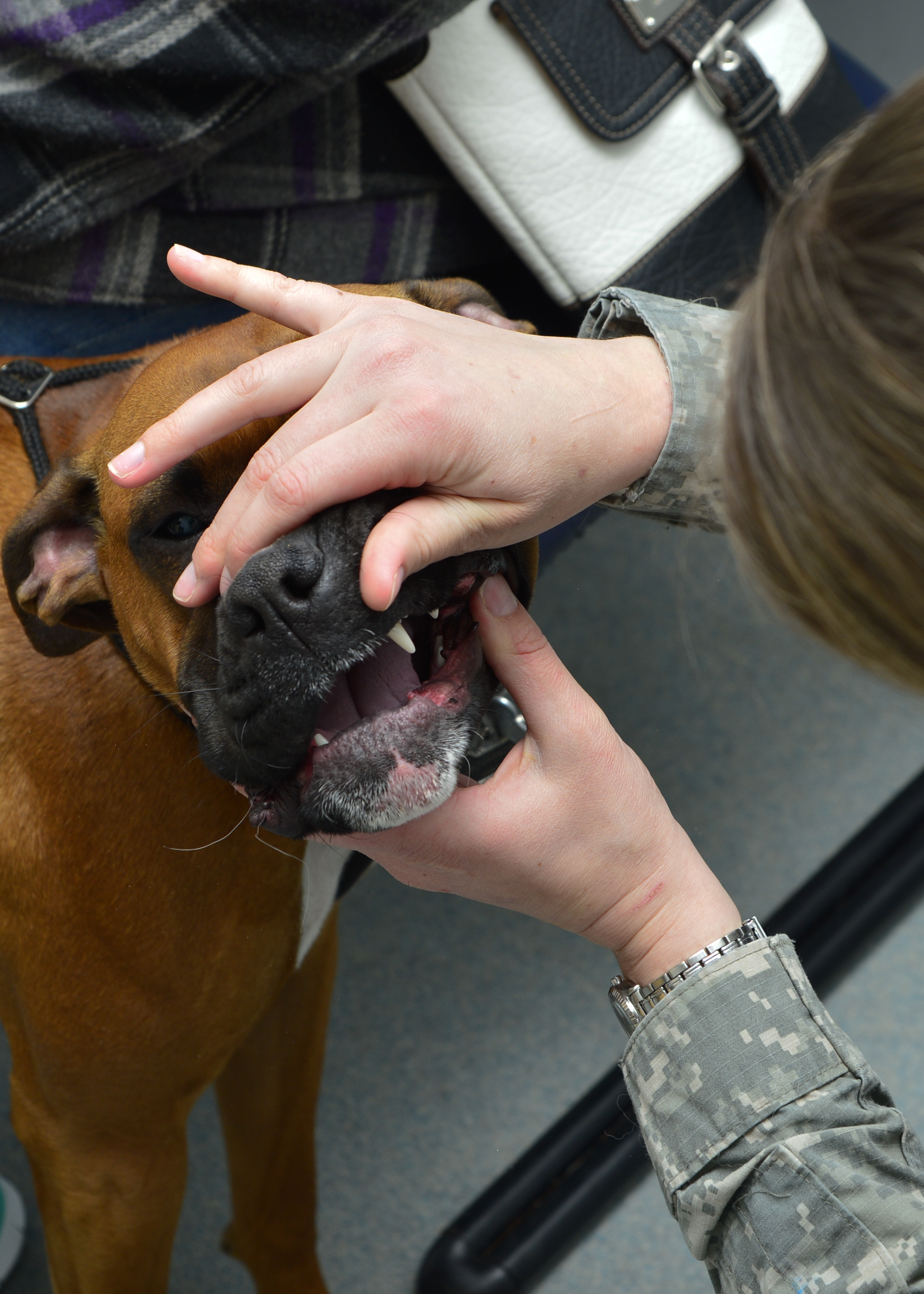 Army Capt. Amanda Jeffries, Veterinary Treatment Facility Officer-in charge and veterinarian, examines the teeth of her patient, Bailey, during a examine Feb. 27, 2015, at the VTF on Dover Air Force Base, Del. The VTF offers dental cleaning services for privately owned animals of Team Dover. (U.S. Air Force photo/Airman 1st Class William Johnson)